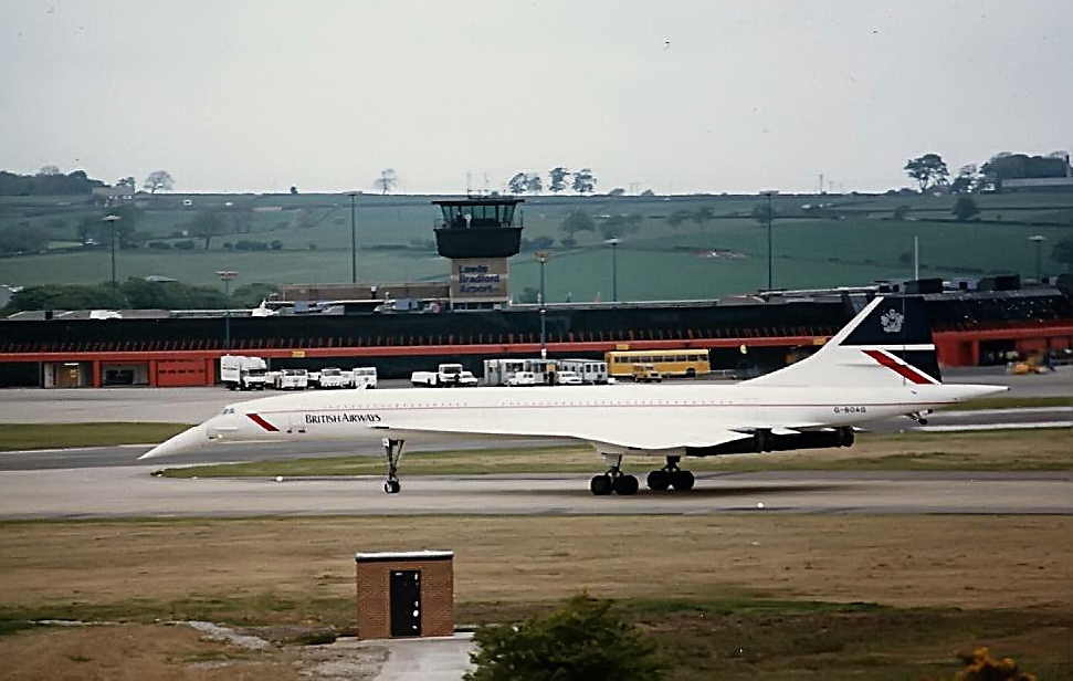 Concorde landing LBIA runway 32 25 May 1987